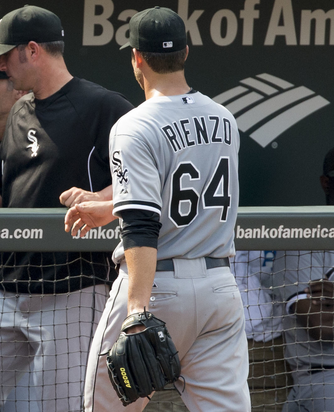 Andre Rienzo of the Chicago White Sox approaches the dugout at Camden Yards in Baltimore during a game in 2013